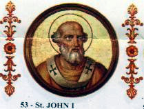 Pope John I